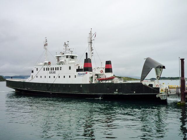 MF Aurland at Askvoll ferry terminal.